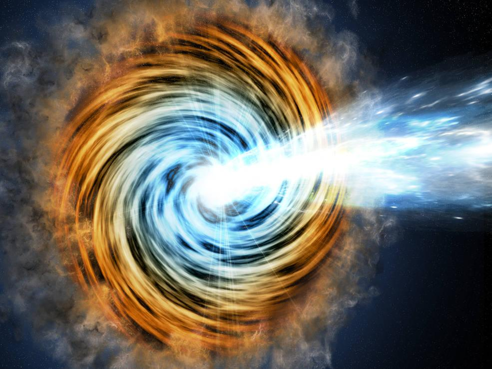 Black-hole-powered galaxies called blazars are the most common sources detected by NASA's Fermi Gamma-ray Space Telescope. As matter falls toward the supermassive black hole at the galaxy's center, some of it is accelerated outward at nearly the speed of light along jets pointed in opposite directions. When one of the jets happens to be aimed in the direction of Earth, as illustrated here, the galaxy appears especially bright and is classified as a blazar.